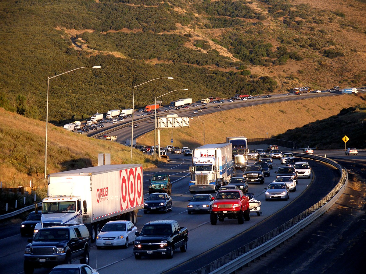 Traffic congestion on northbound Interstate 5 (California) (the Golden State Freeway) near Pyramid Lake (California). Photographed by user Coolcaesar on June 16, en:2006.